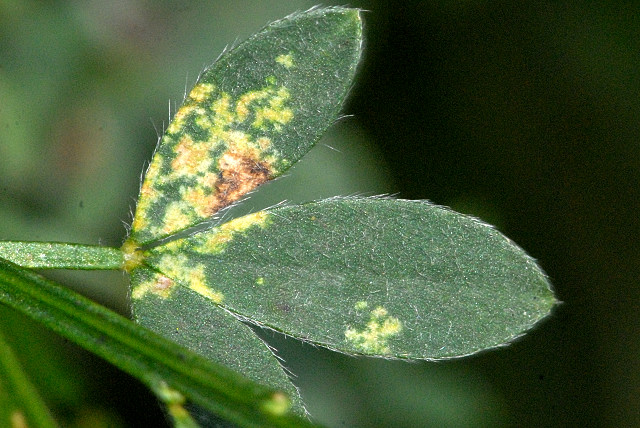 Uromyces pisi-sativi from Commanster, Belgium. If you think this is a different taxon, please contact James Lindsey.